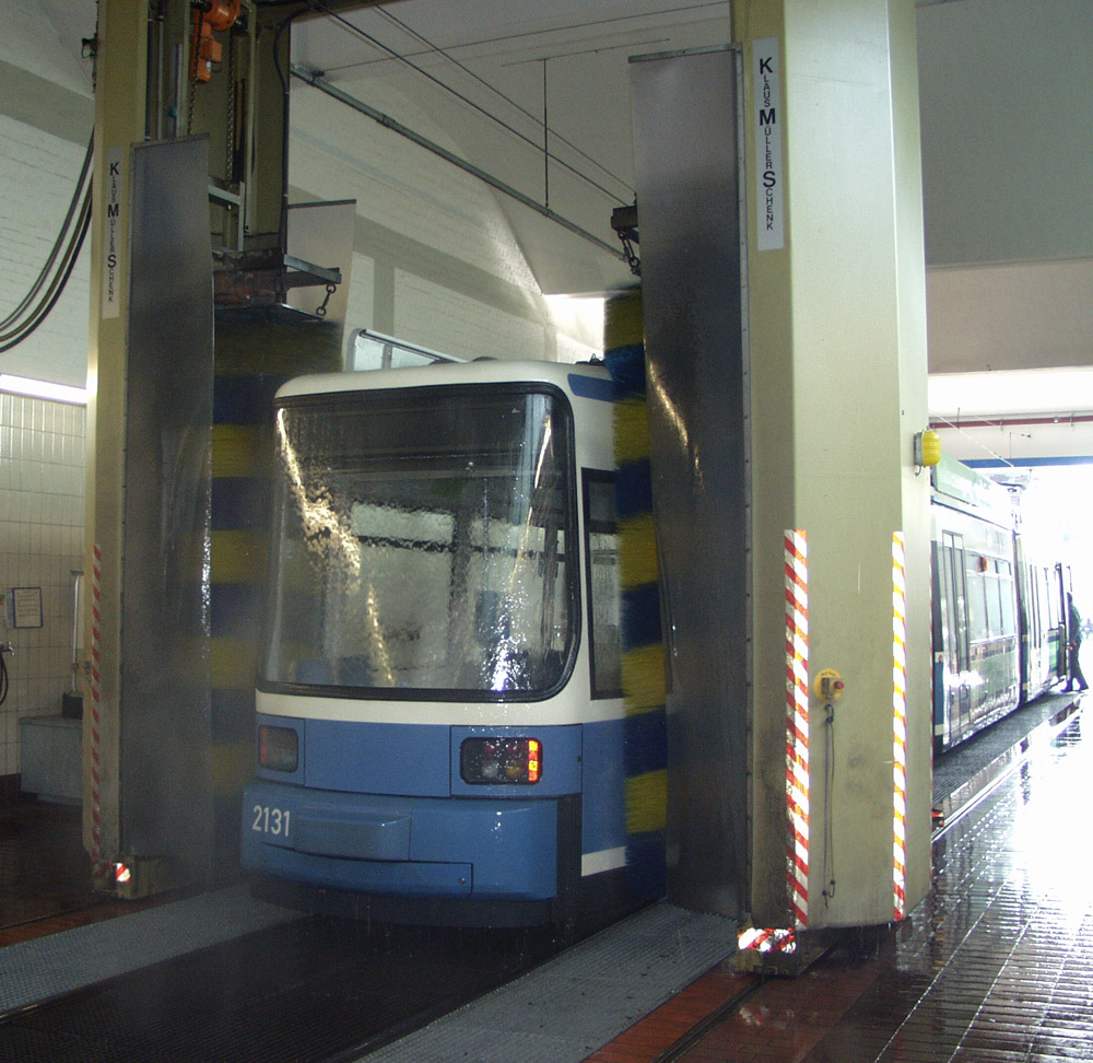 Inside a streetcar wash at Munichs streetcar (tramway) maintenance and storage facility